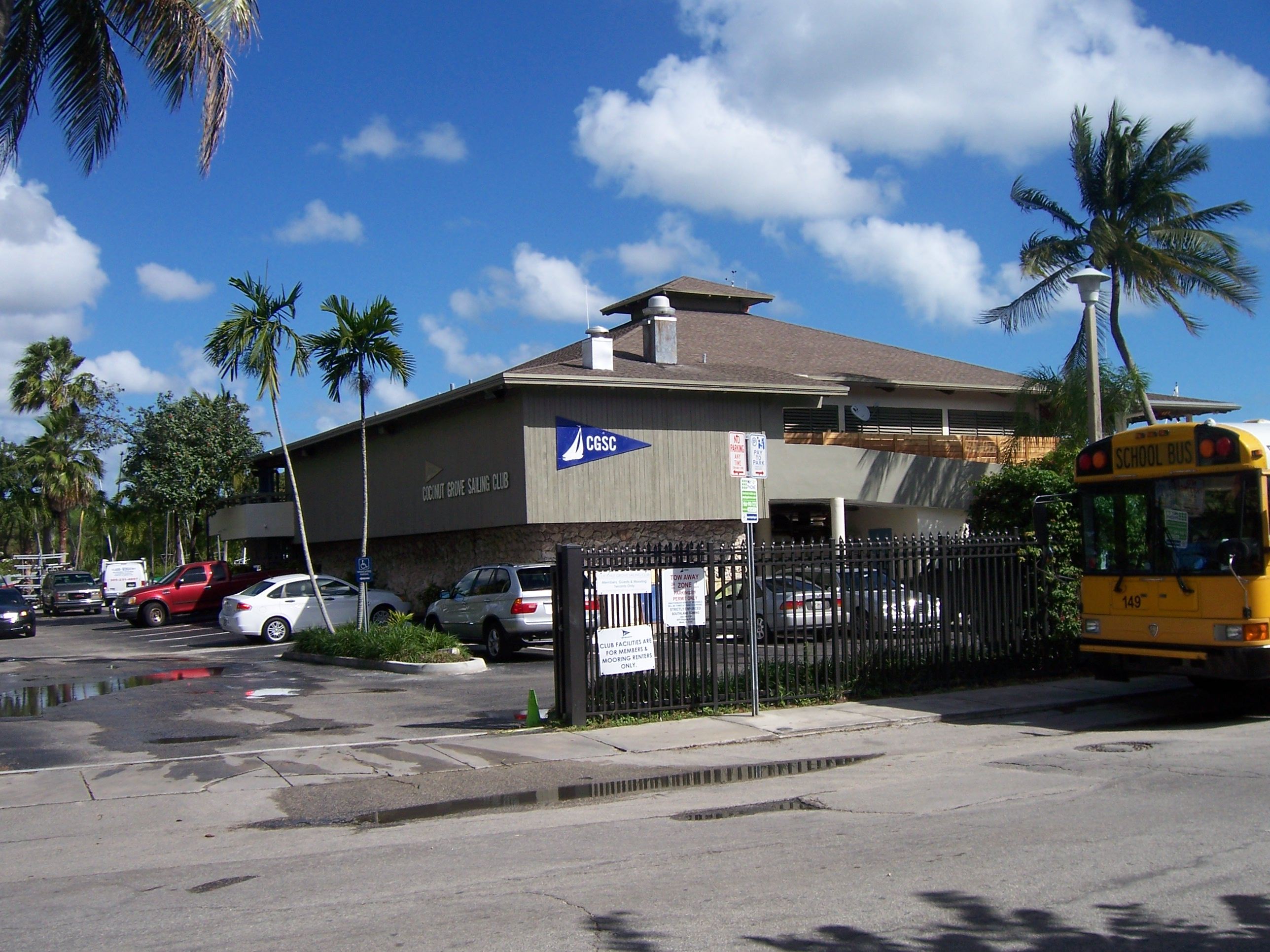 Coconut Grove Sailing Club entrance